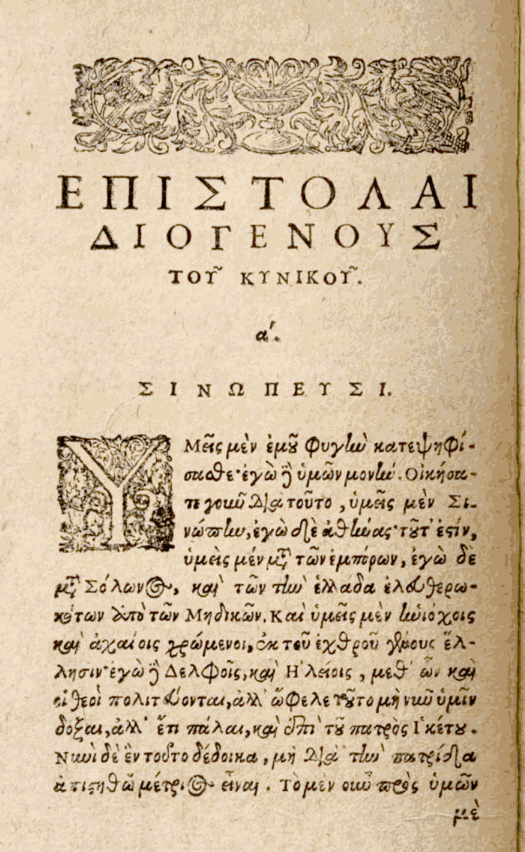 Page 65 of Epistolae Hippocratis, Democriti, Heracliti, Diogenis, Cratetis (Letters of Hippocrates, Democritus, Hereclitus, Diogenes, Crates). Pseudo-Diogenes, Letter 1, addressed to the people of Sinope.